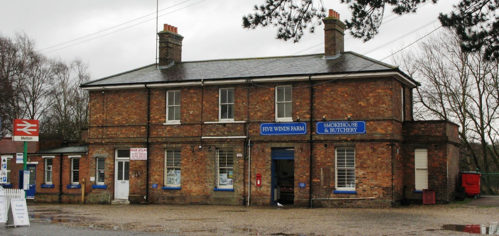 Melton station is on the East Suffolk Line in England. Although it sees an hourly service in each direction it is no longer staffed, so the station building is now used as a farm shop and butchery.